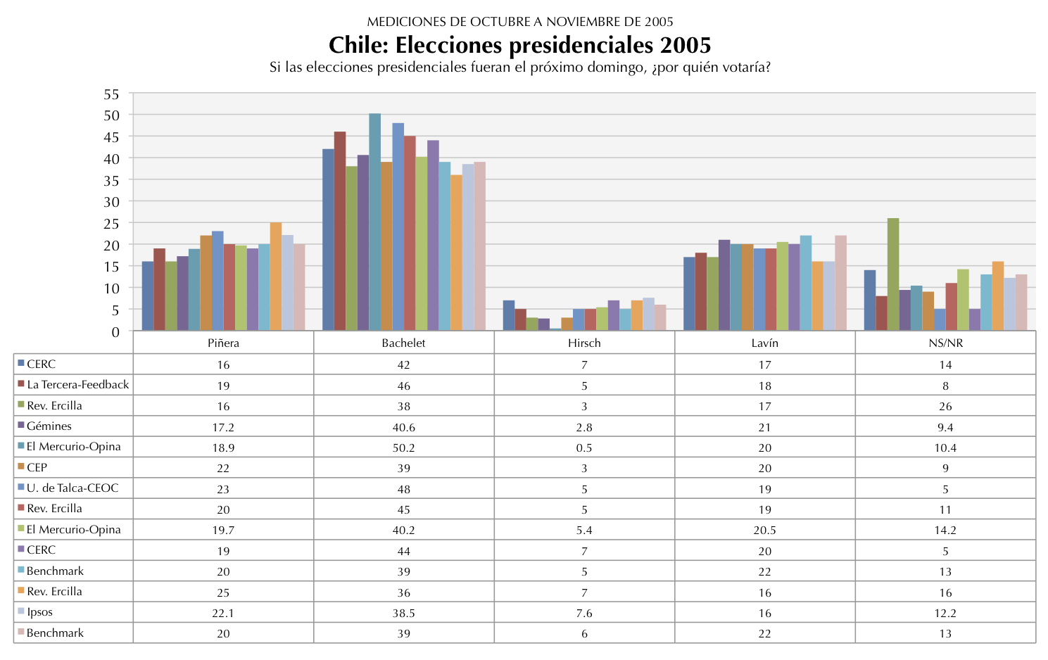 Hecha por mí mismo. Image:Chilean presidential election 2005 June 2005 opinion polls.png